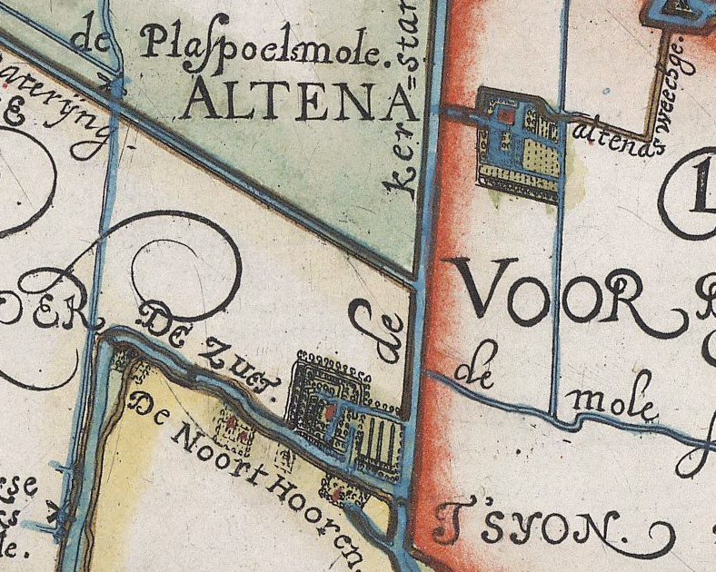 Kaartboek van de hoogheemraadschappen van Rijnland, Delfland, Schieland, gemeten en in kaart gebragt door Mr. Floris Balthasar.